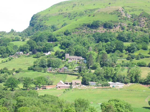 Cwmyoy